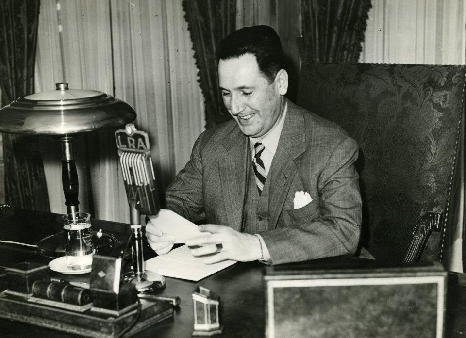 President of Argentina, Juan D. Perón, giving a speech on LRA Radio Nacional.